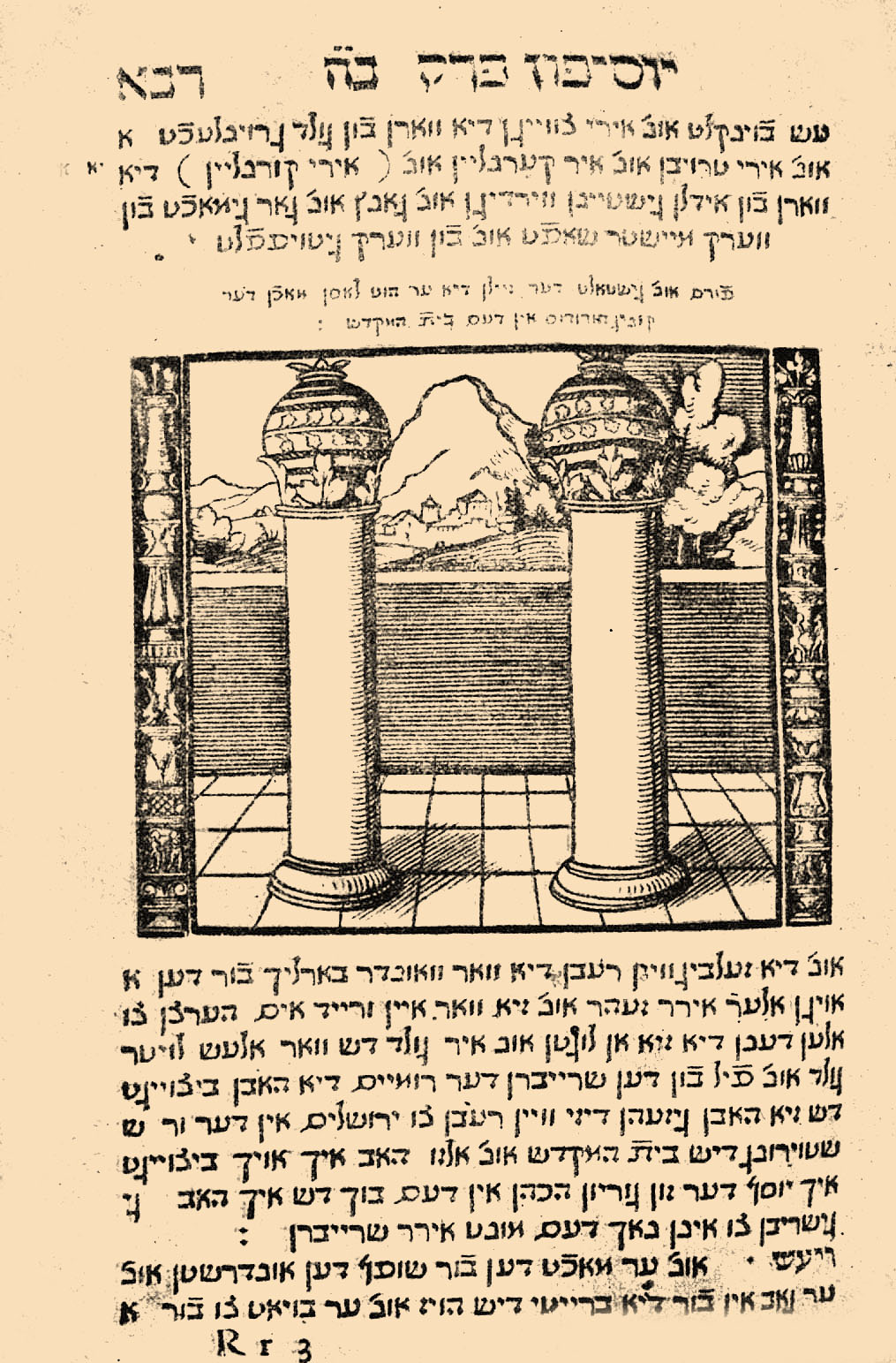 Illustration from Brockhaus and Efron Jewish Encyclopedia (1906—1913)